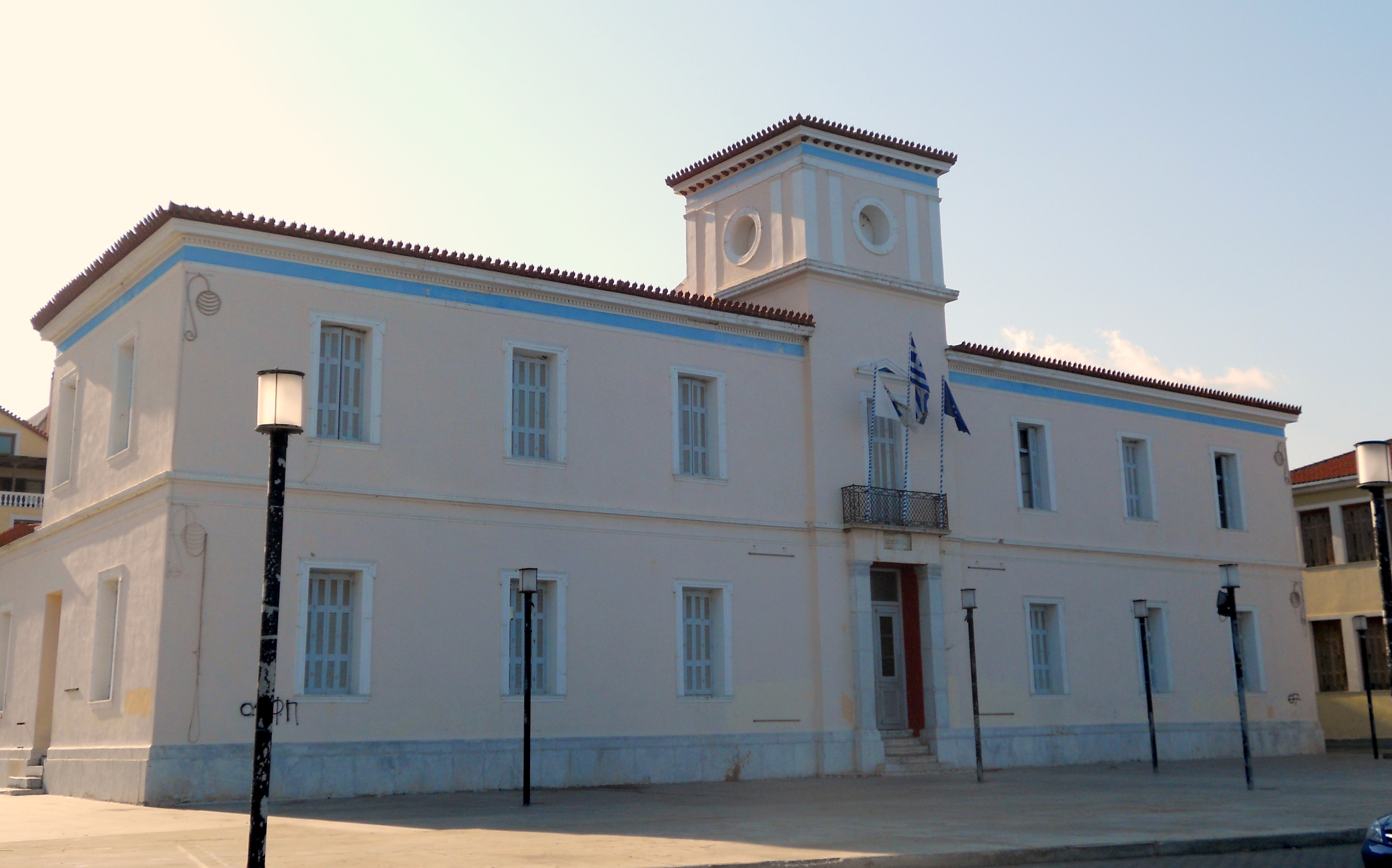 Town hall in Gythio, Greece. Architect: Ernst Ziller